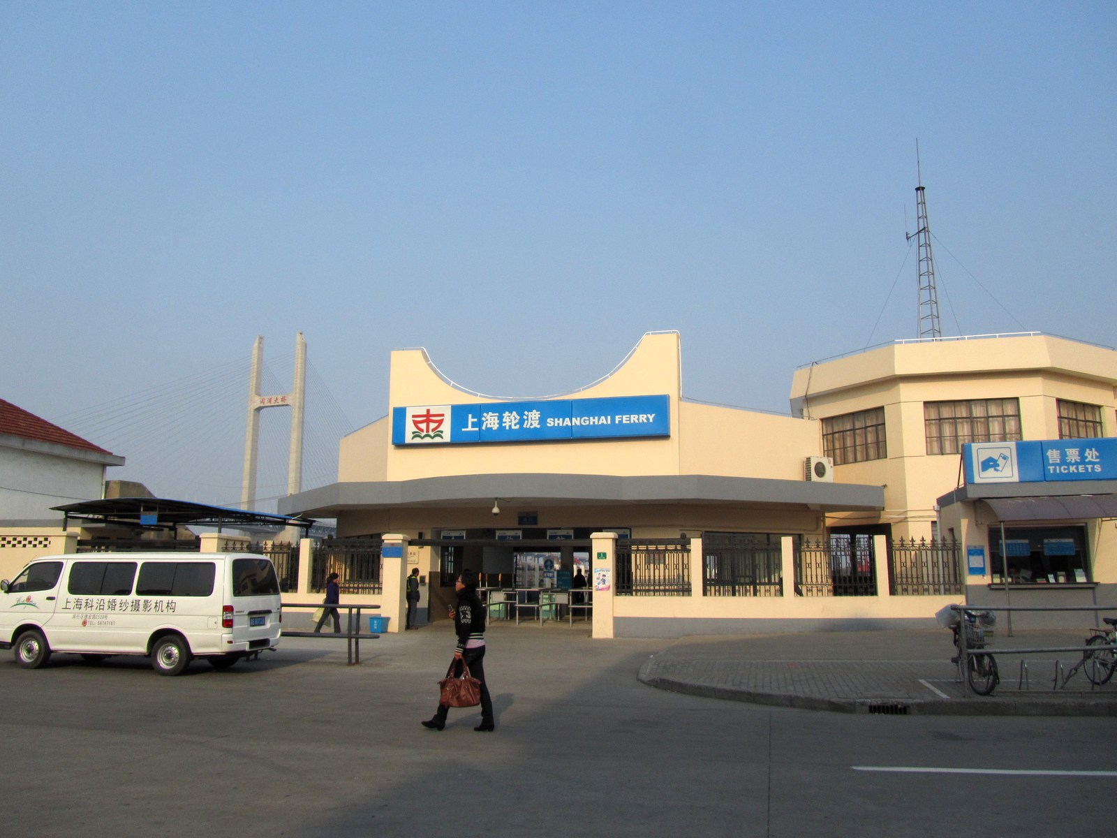 Wujing Ferry